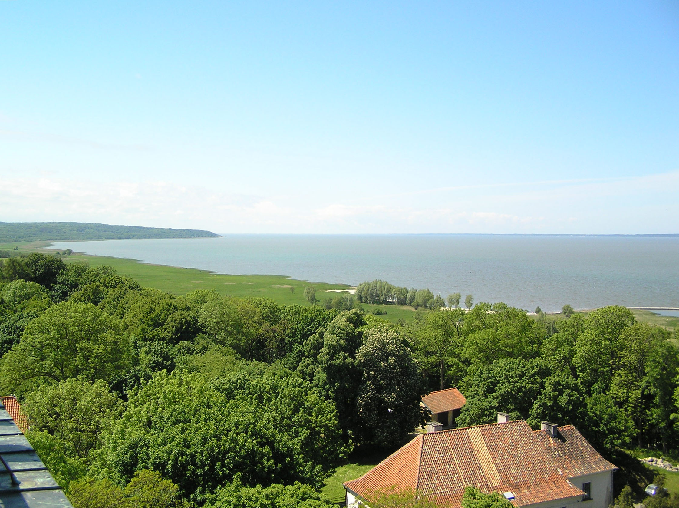 Frombork, view on the Vistula Lagoon from artillery tower